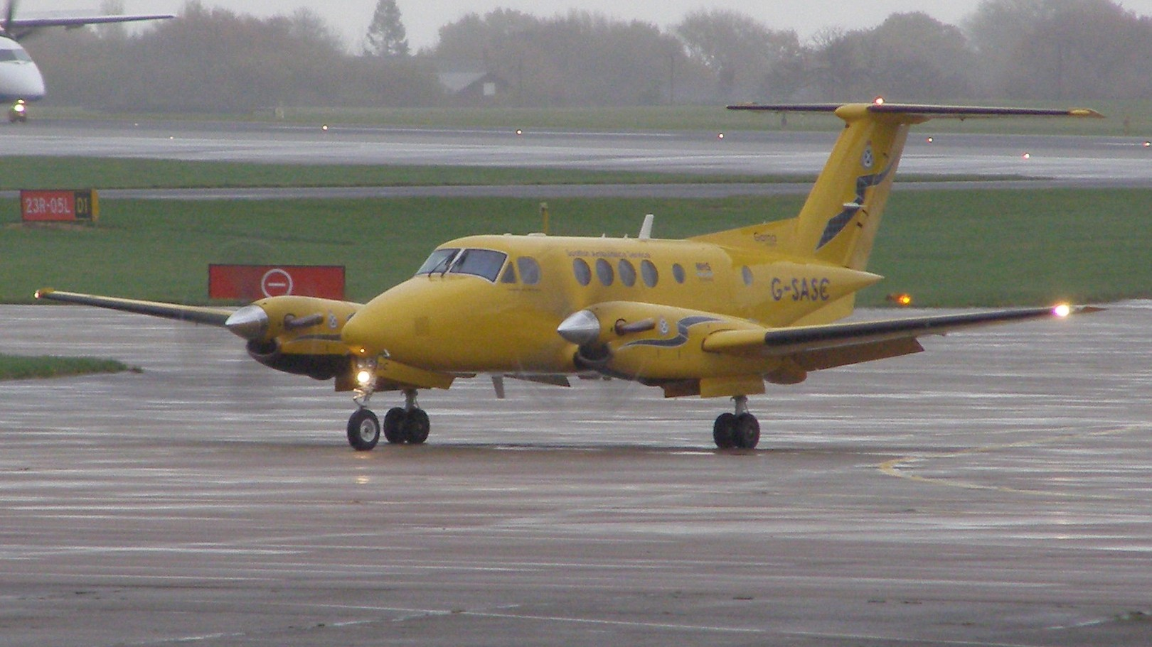 Scottish Air Ambulance Beech King Air 200C registered G-SASC at Manchester Airport, England